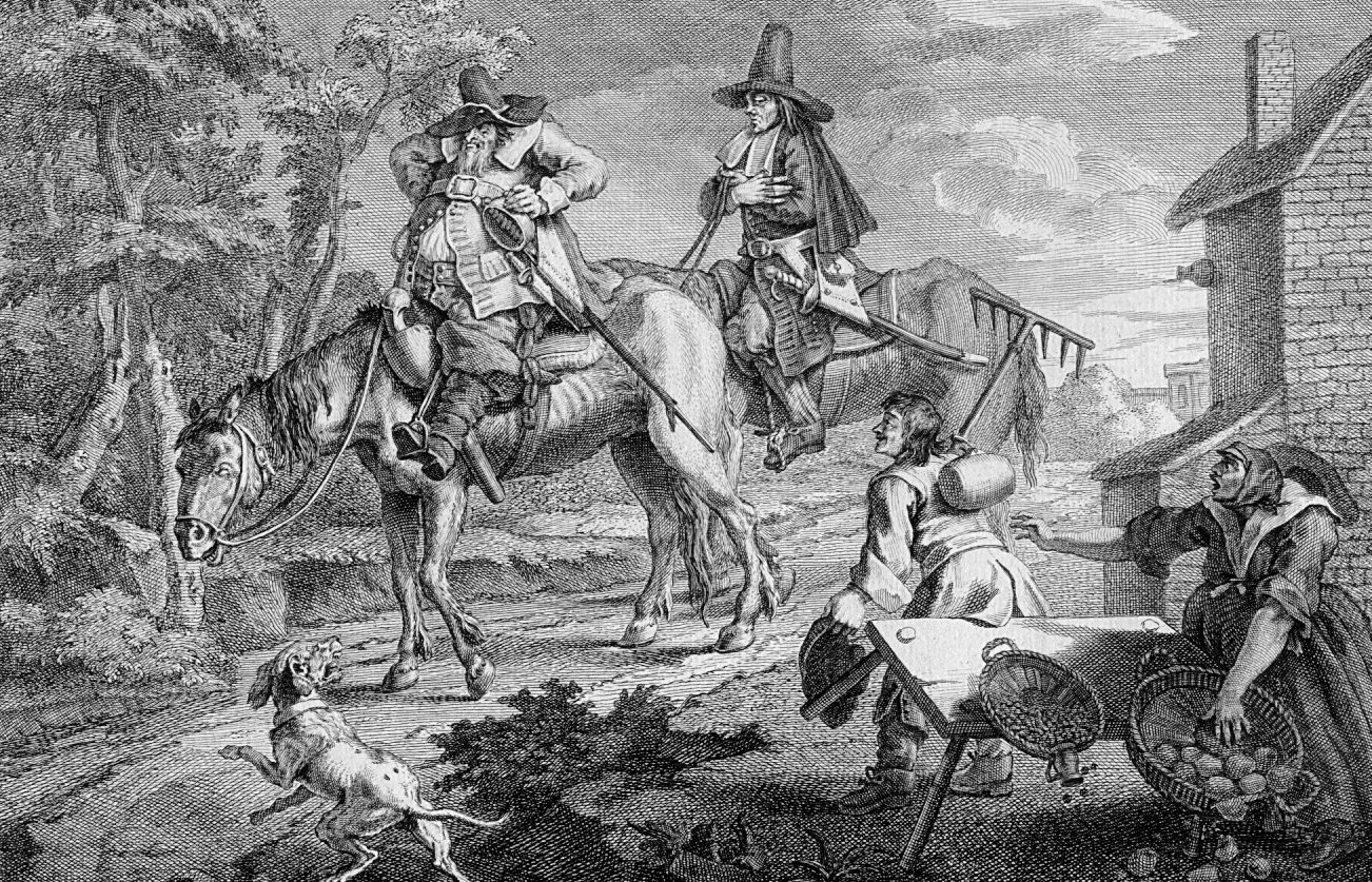 Plate 2: a country scene with Hudibras and Ralpho mounted on emaciated horses; to left, a dog snarls at them; to right, a man holding a rake laughs and accidentally knocks over a table with baskets of vegetables to the consternation of his wife.